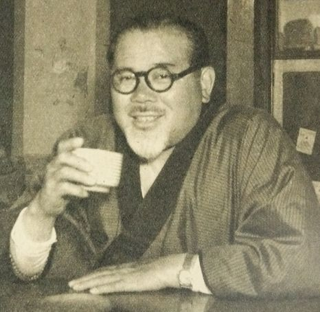 Wataru Narahashi